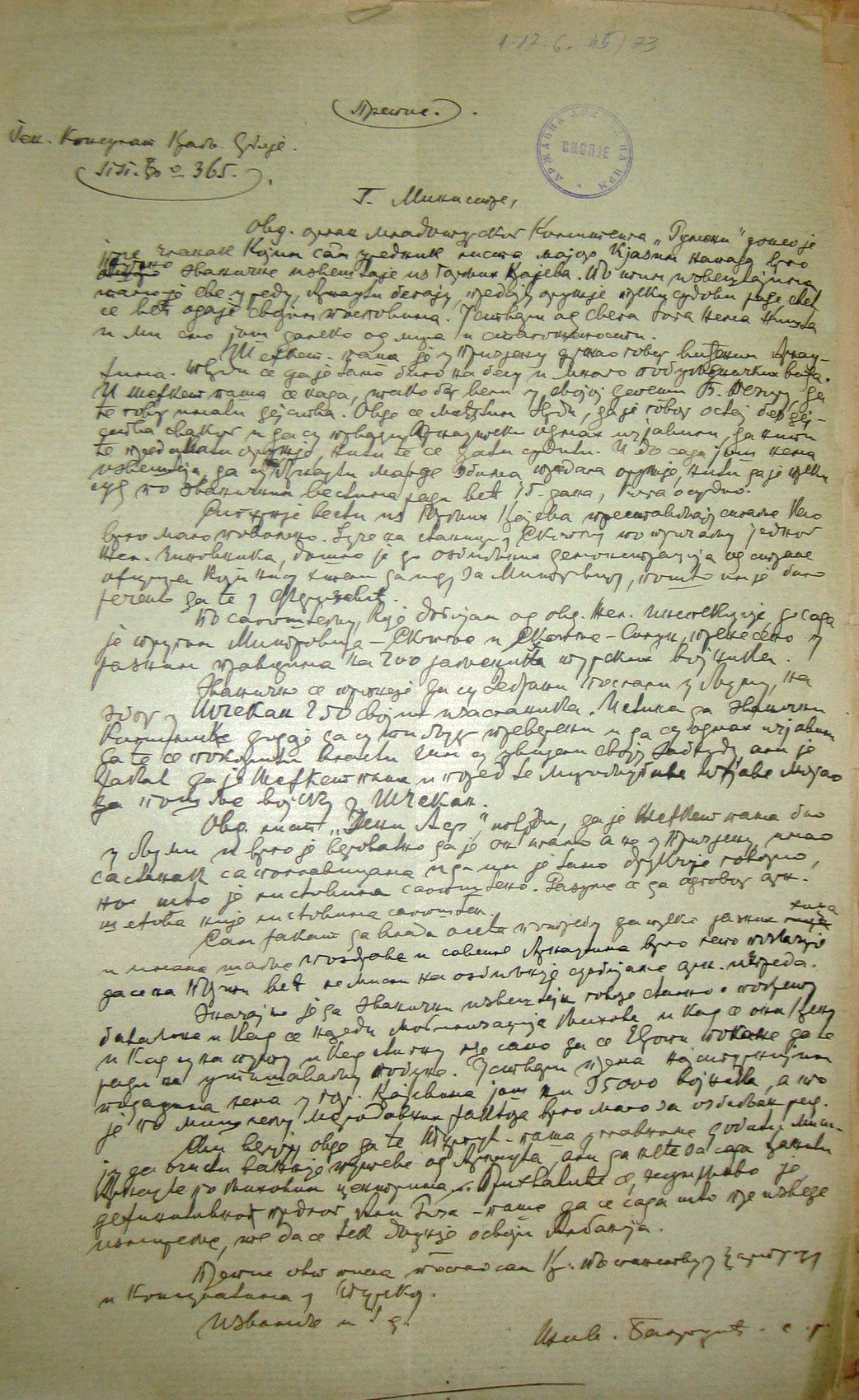 Report from Balugdzhikj about riots in Upper regions, caused by Arnauts, and an official report from the Young Turk Committee "Rumeli". (Thessaloniki, May 1910) This media file is produced by Wikipedian in Residence in Category:Wikipedian in Residence at DARM in 2016.